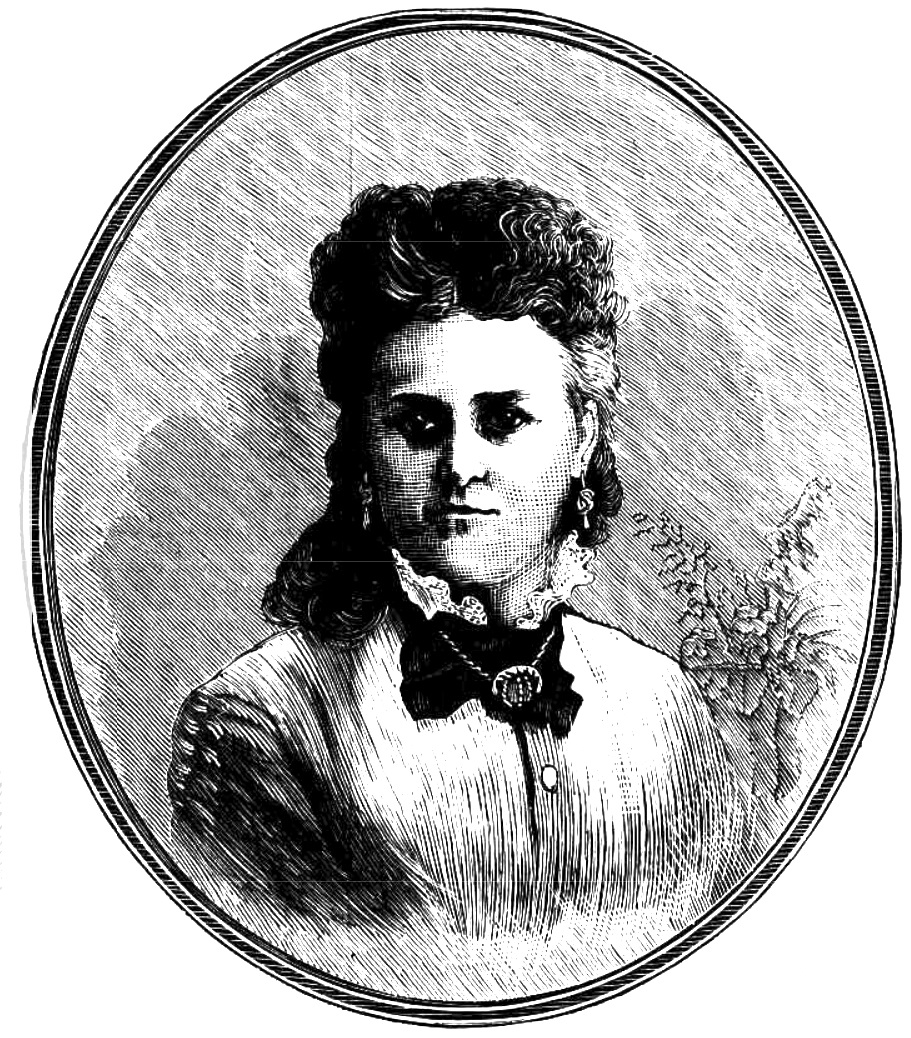 woodblock engraving of Victorian-era female singer Minna Fischer of Adelaide